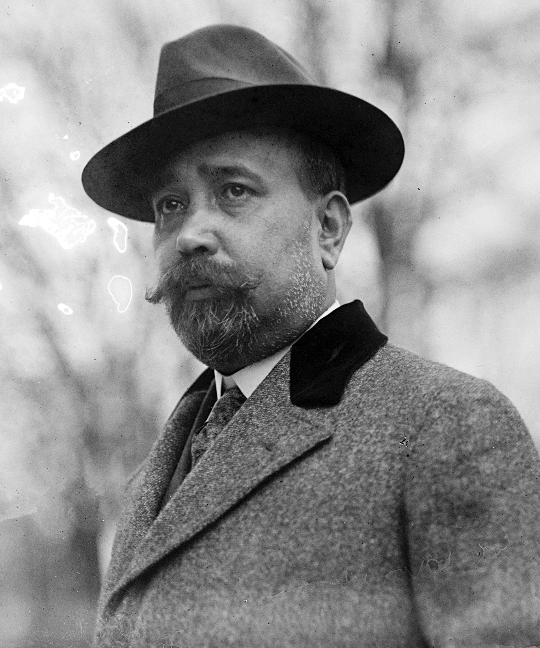 Isauro Gabaldon, Resident Commissioner of the Philippines